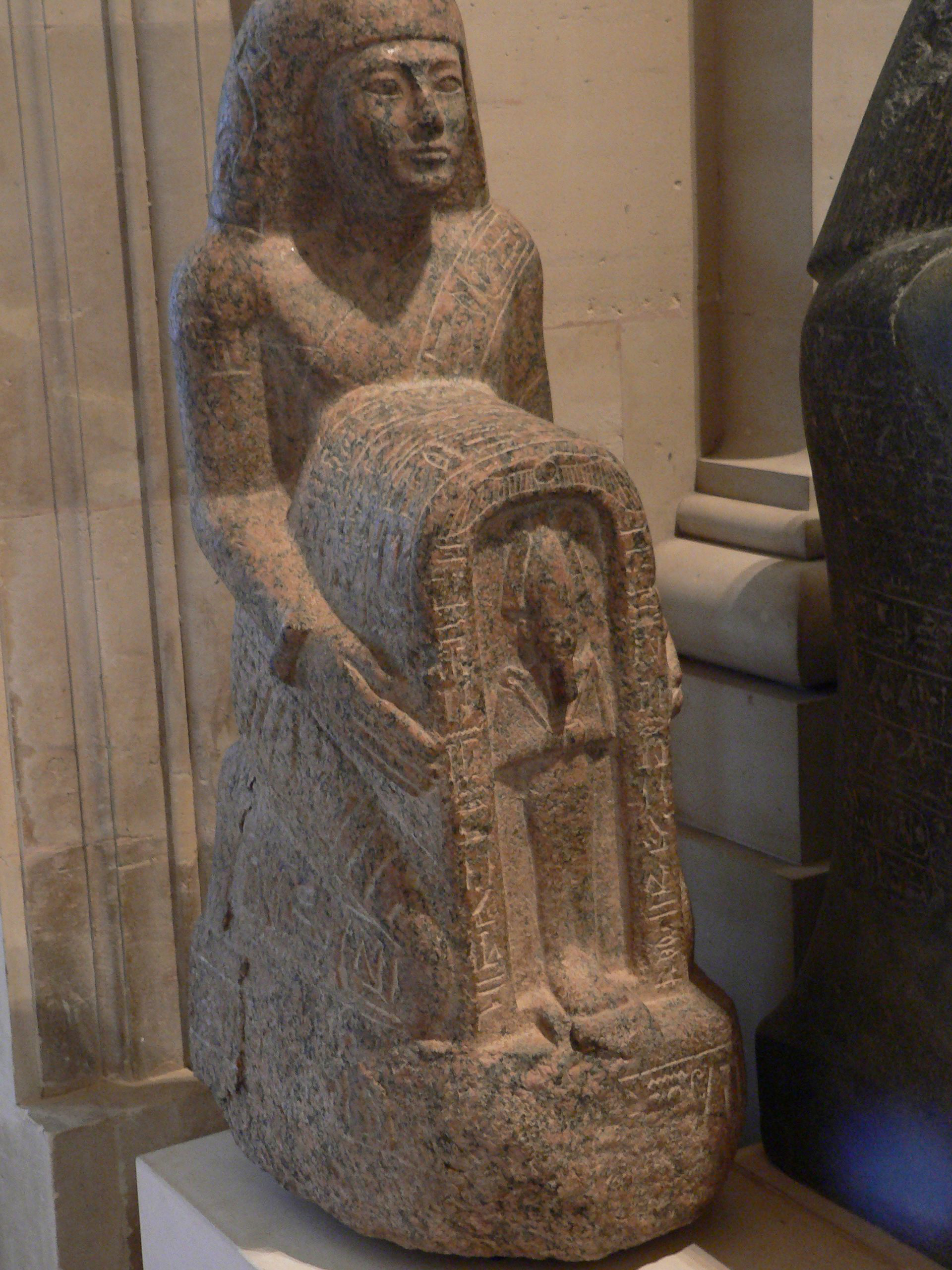 Egyptian antiquities of the Louvre